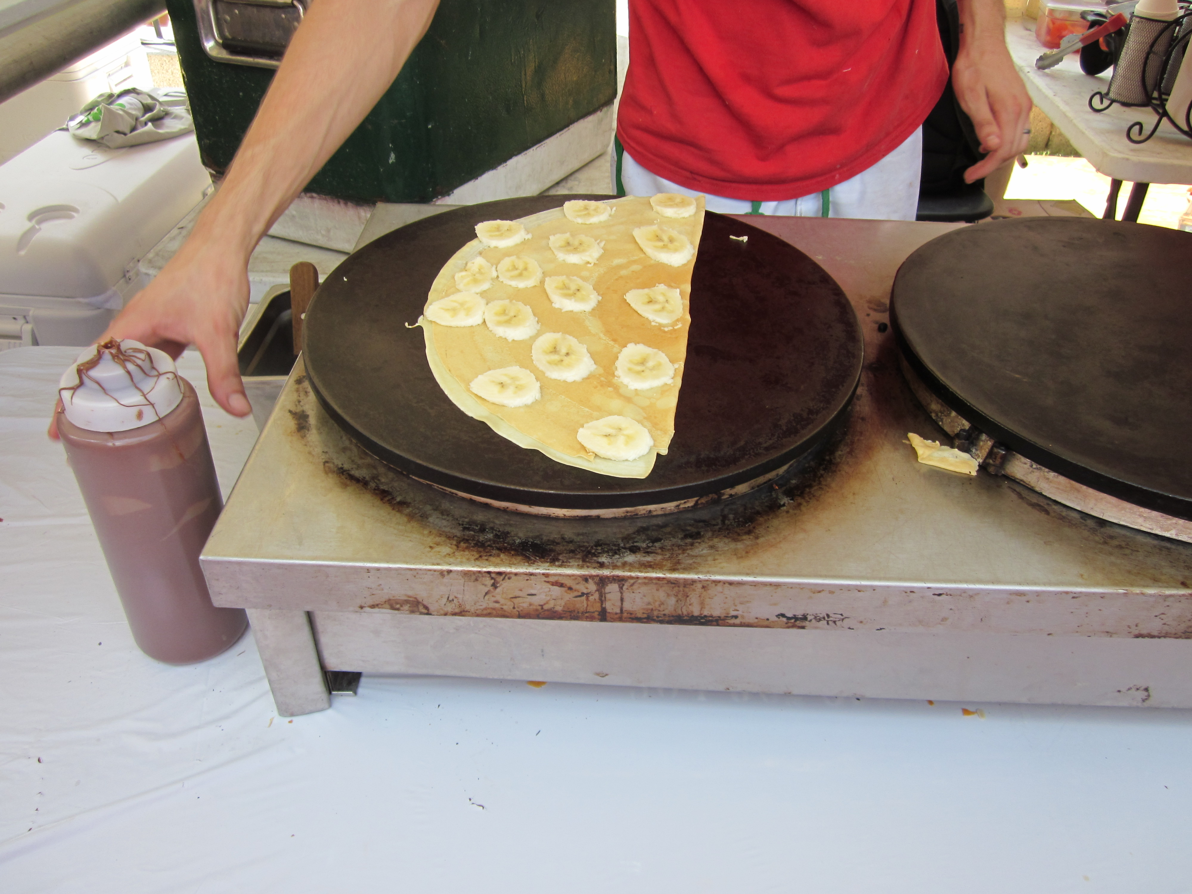 Satchmo SummerFest 2010, French Quarter, New Orleans. Banana nutella crepe being prepared by food vendor.